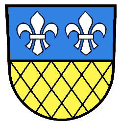 Coat of arms of Balgheim